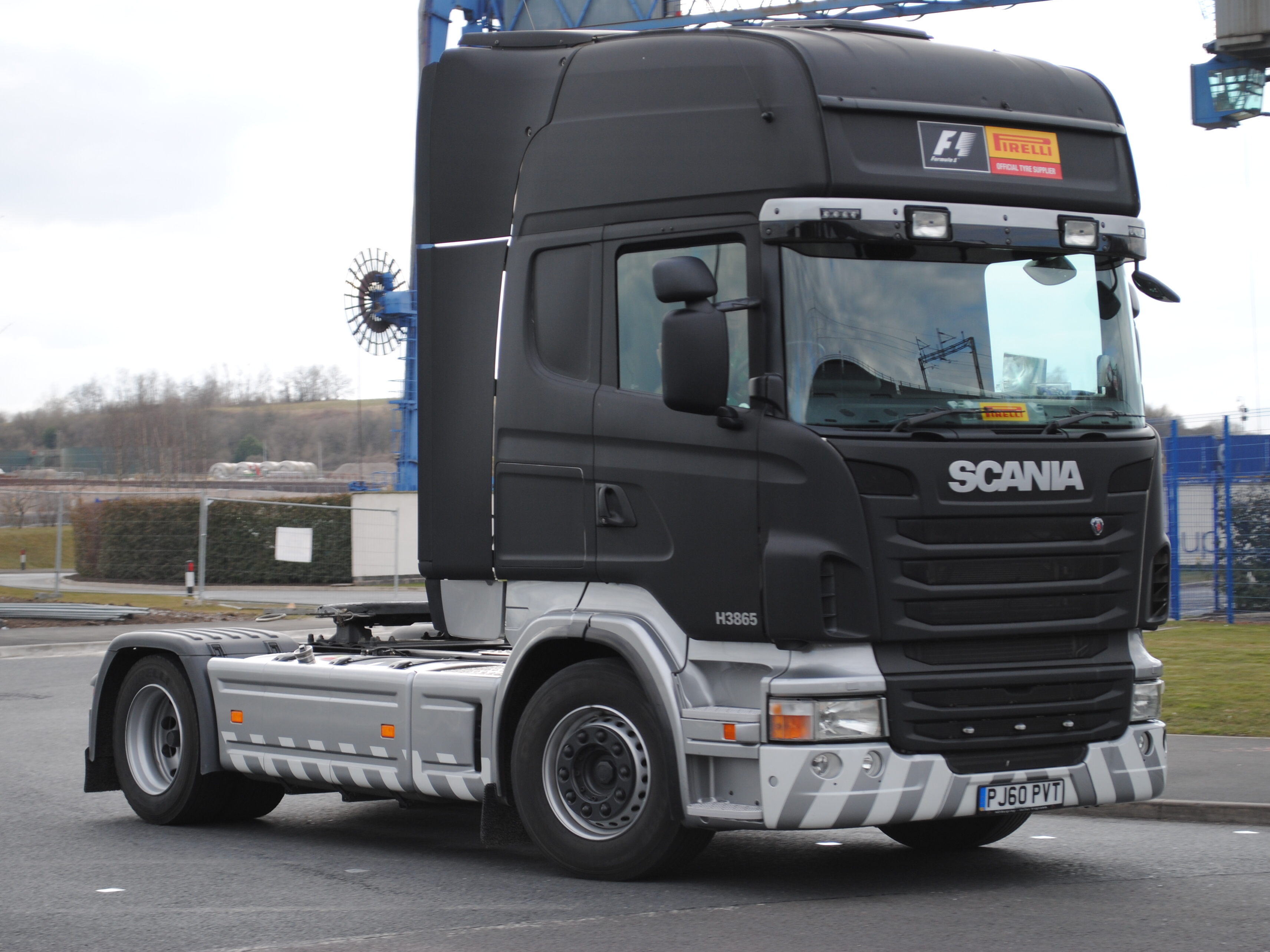 Scania R440. seen here in Widnes